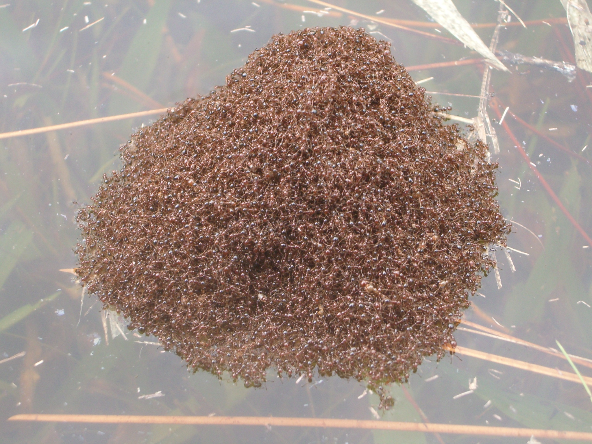 Colony of Fire Ants displaced by rapidly risen water floating on surface